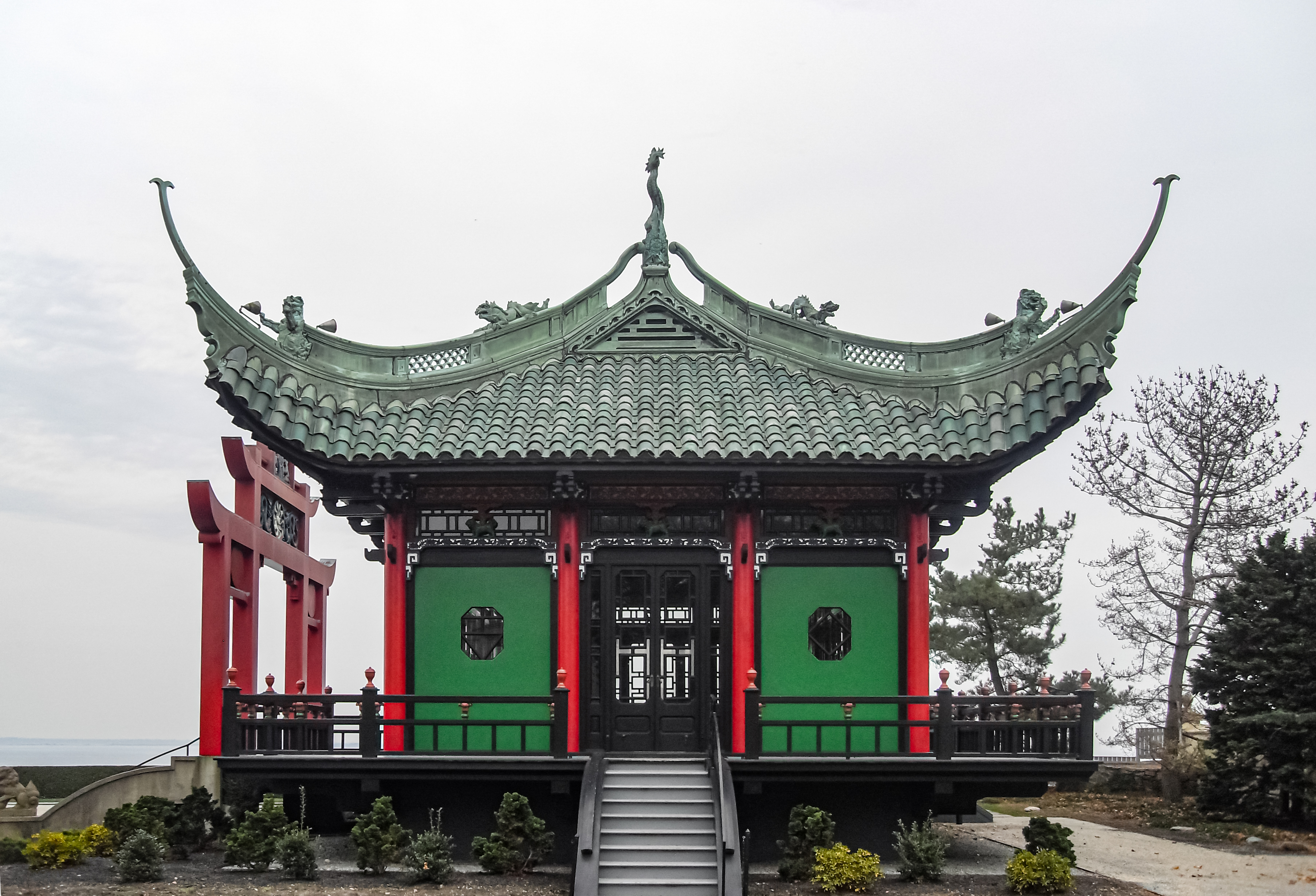 Chinese Tea House, near the Marble House, Newport, RI